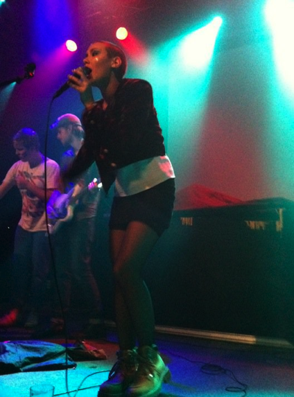 Lovisa Negga live at Debaser, Stockholm, Sweden, 2010.